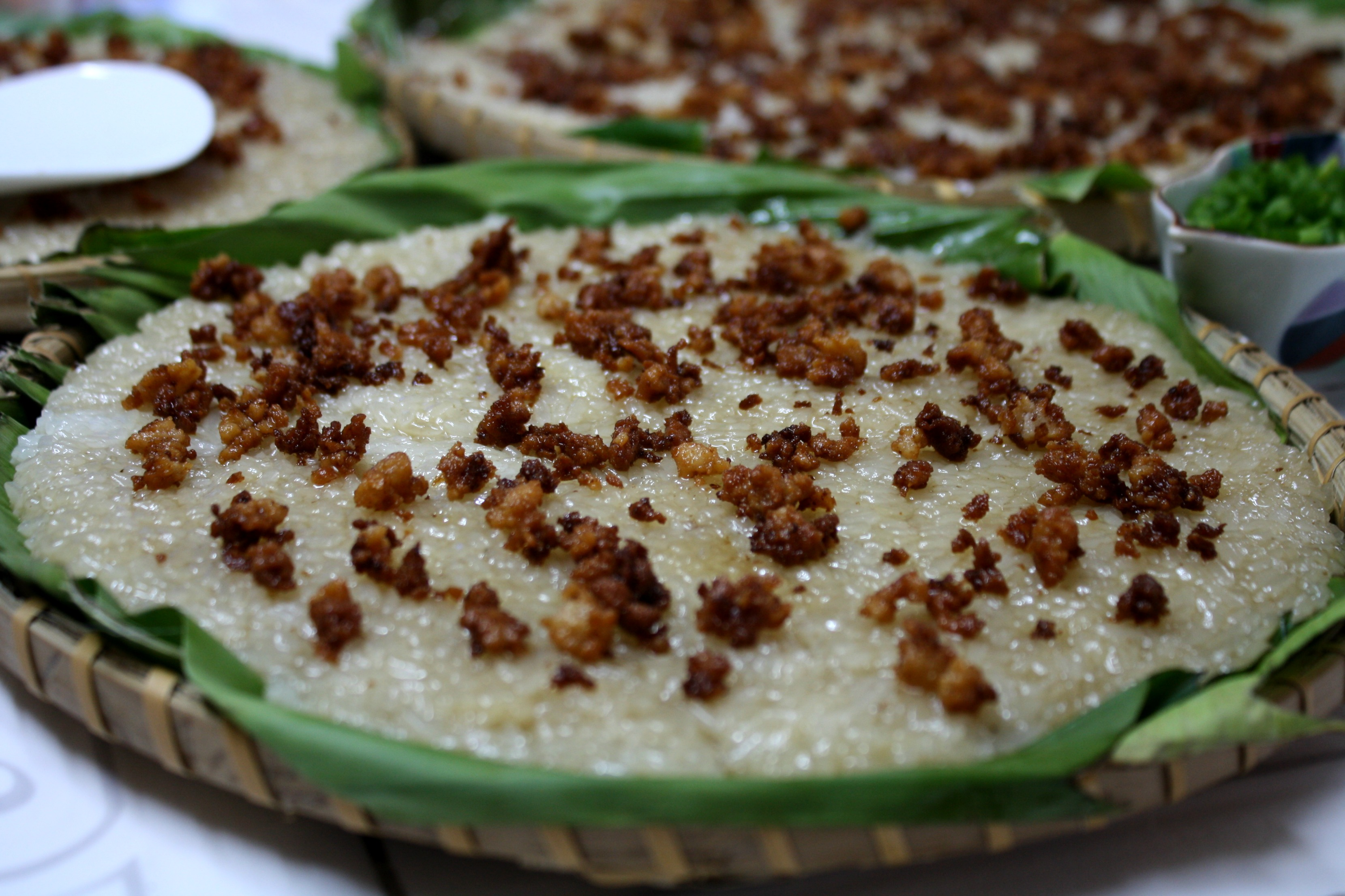 Rice cake cooked with coconut milk and topped with "latik" or coconut curds.